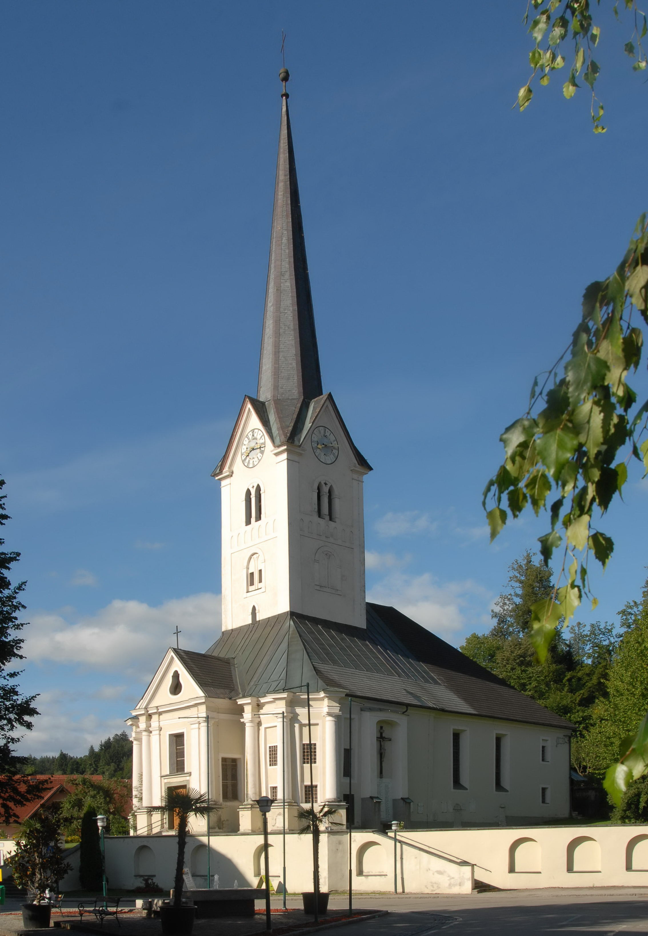 Parish church Saint Michael in the municipality Moosburg, district Klagenfurt Land, Carinthia, Austria